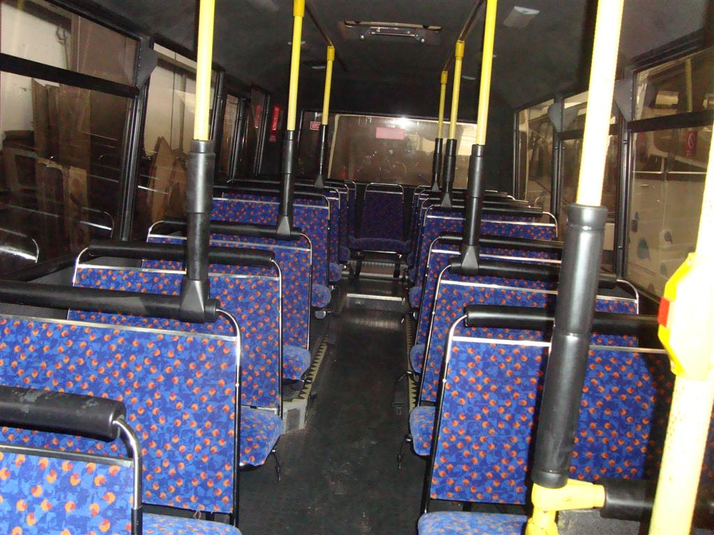 Optare metrorider Interior